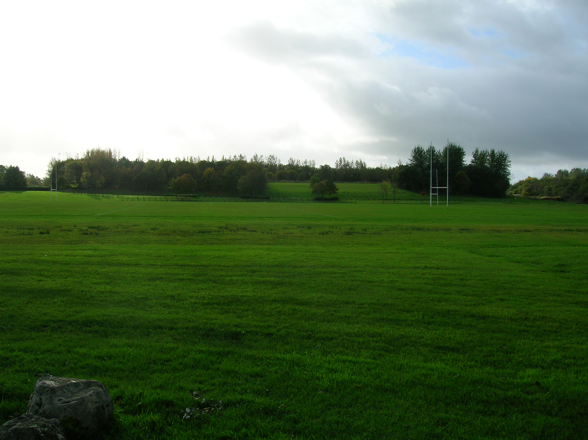 A view from the present shoreline of Kilbirnie Loch across the area infilled by the steelworks and ironworks. The old shoreline can be seen in the distance. North Ayrshire, Scotland